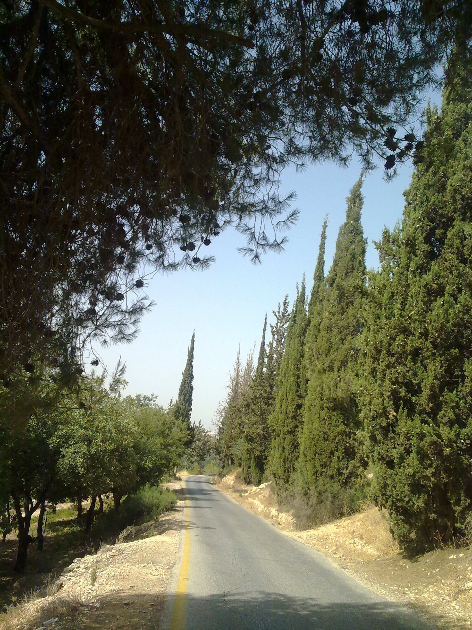 view of the west of Yad Vashem, the Jerusalem forest entrance. Western structures of Yad Vashem and trees through the forest side of the site